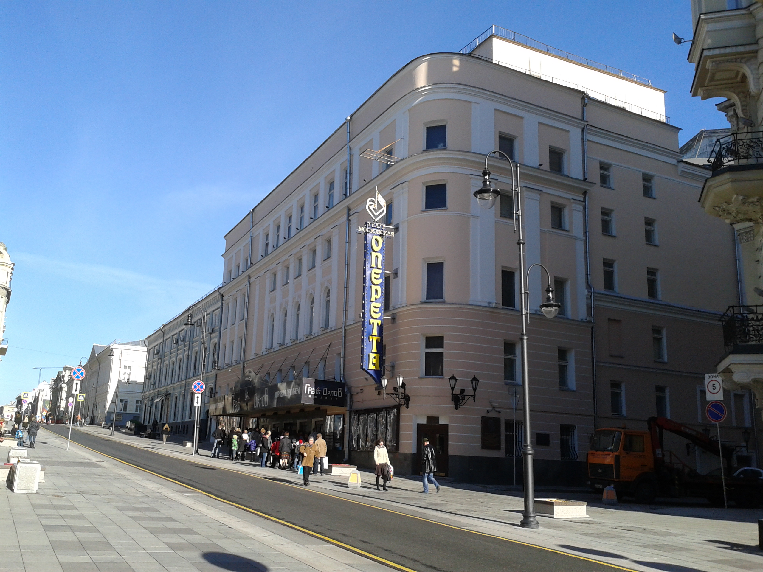 Moscow Operetta, Russia